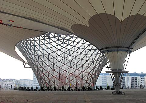 Expo Axis